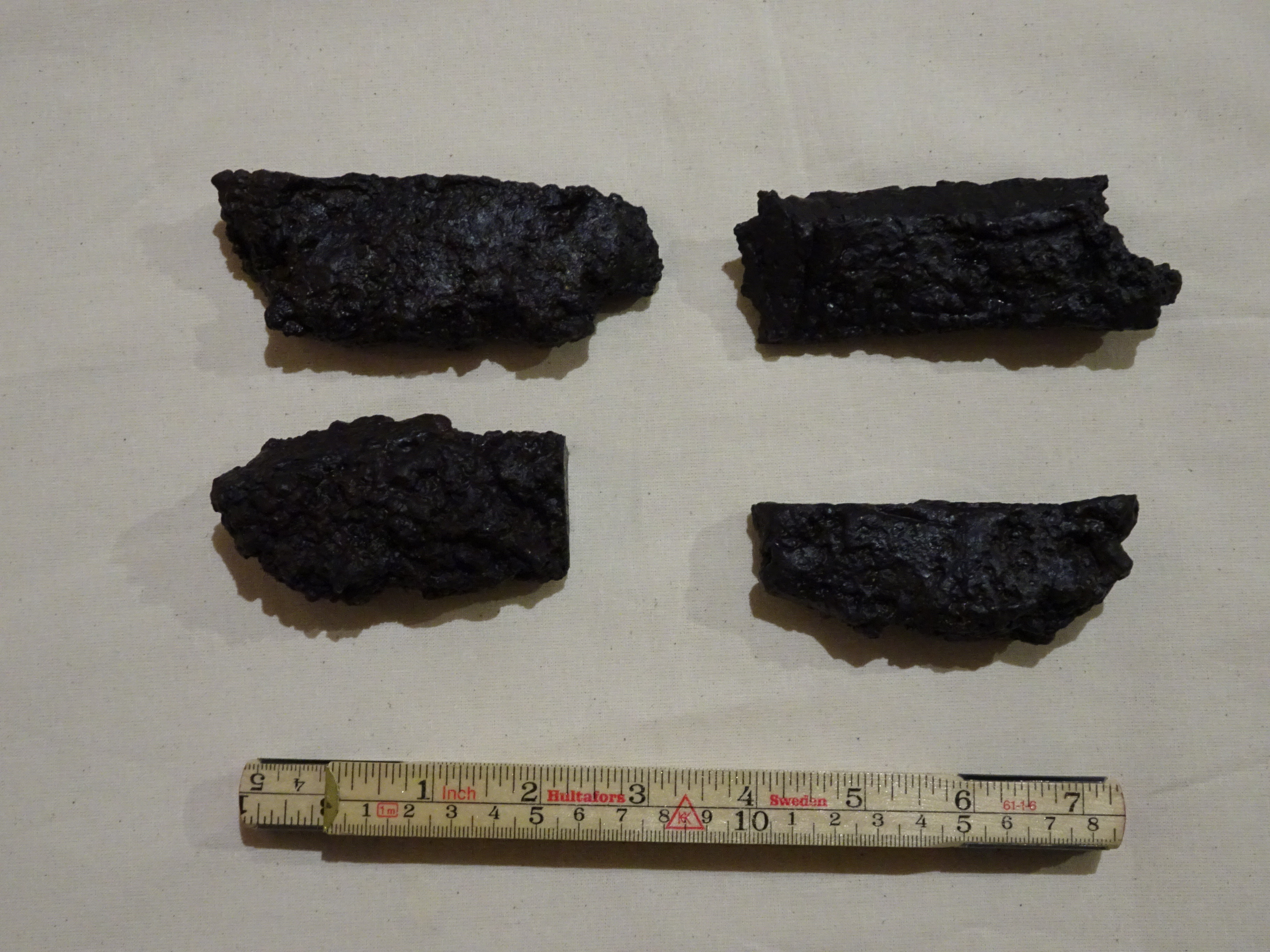 Osmond iron pieces, found in Lapphyttan, Norberg, Sweden. These are displayed at the Västmanlands läns museum in Västerås, Sweden.